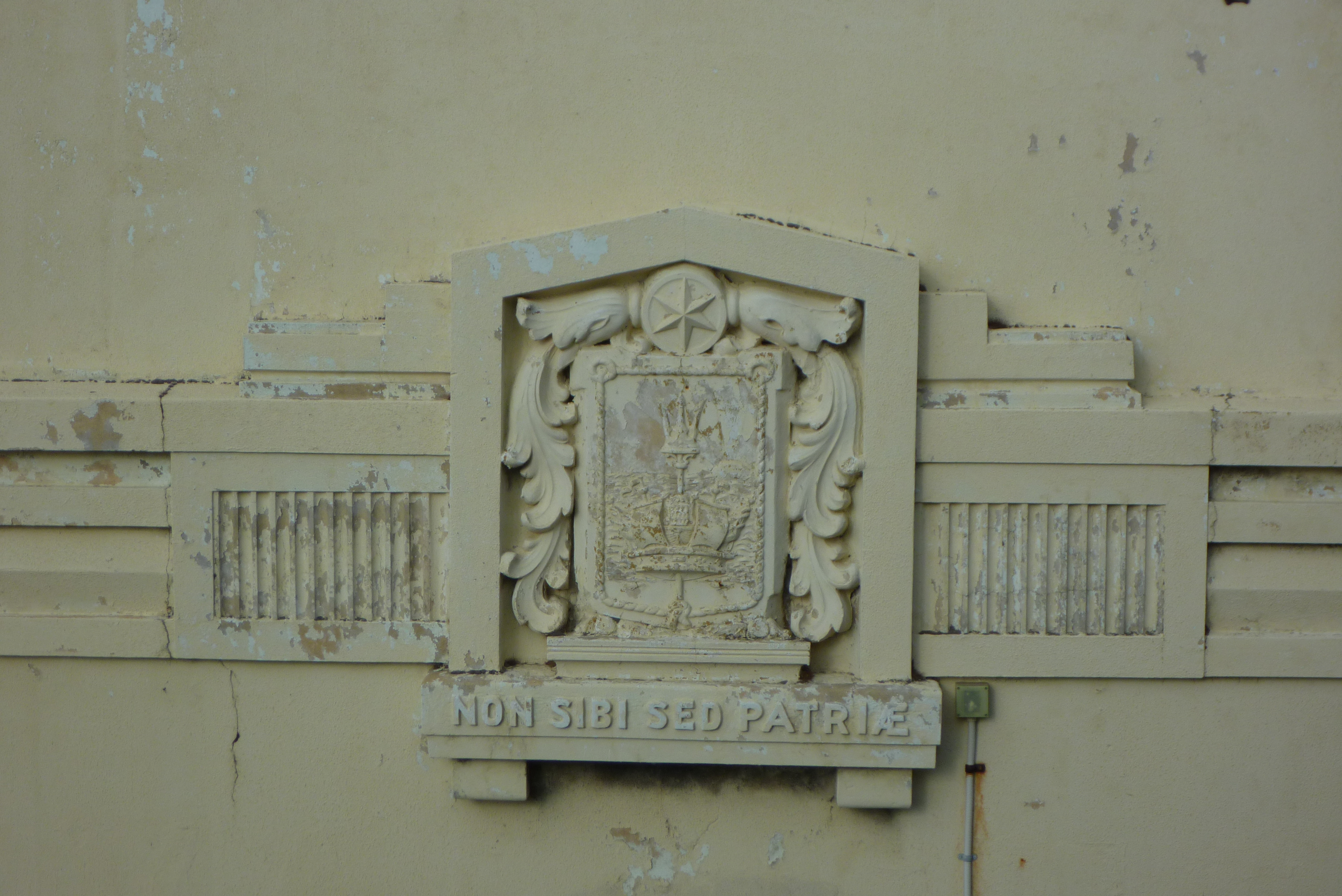 A photograph of the concrete relief of a US Navy insignia on the south-western wall of the old Navy warehouse on Cantonment Hill, Queen Victoria Street, Fremantle, Western Australia. The motto reads "non sibi sed patriæ".